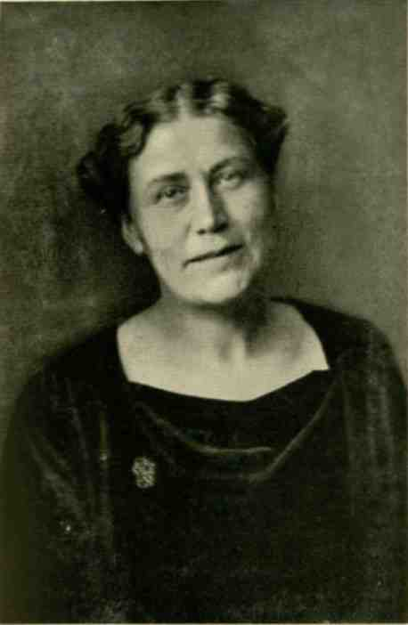 Emmy Remolt-Jessen.